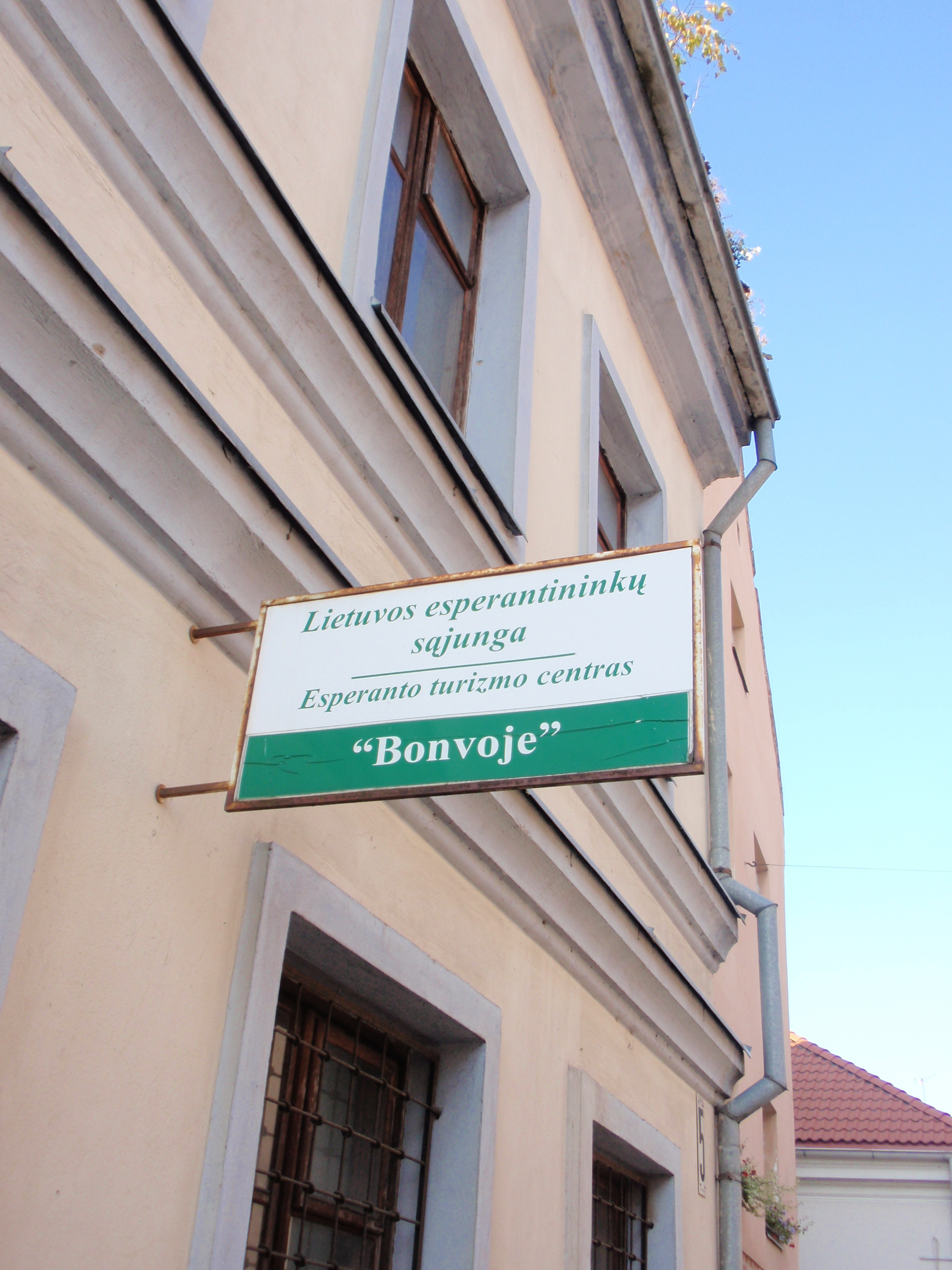 sign at the historical house "Zamenhofo gatvė 5", home of Aleksandr Silbernik, father-in-law of L. L. Zamenhof, now seat of Lithuanian Esperanto-Association, in the old town of Kaunas.